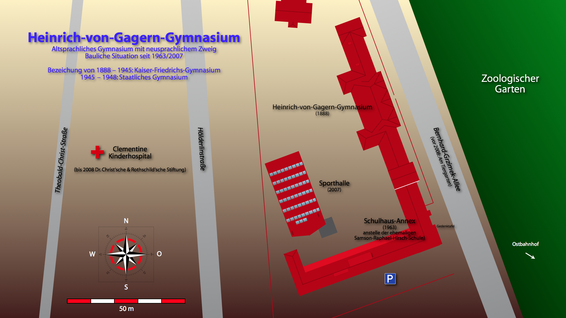 Architectural situation of Heinrich-von-Gagern-Gymnasium in Frankfurt am Main, Hesse, Germany, founded in 1888 as Kaiser-Friedrichs-Gymnasium. The J-shaped annex building of 1963 (in the graphics separated by a white line from the old main building) replaced the former Samson-Raphael-Hirsch-Schule, a jewish orthodox school which was officially closed on 30 March 1939 and partly destroyed in WWII. The jewish school was reopended after war but never got as many pupils as before the Holocaust. In 1960 the jewish school building was taken down.